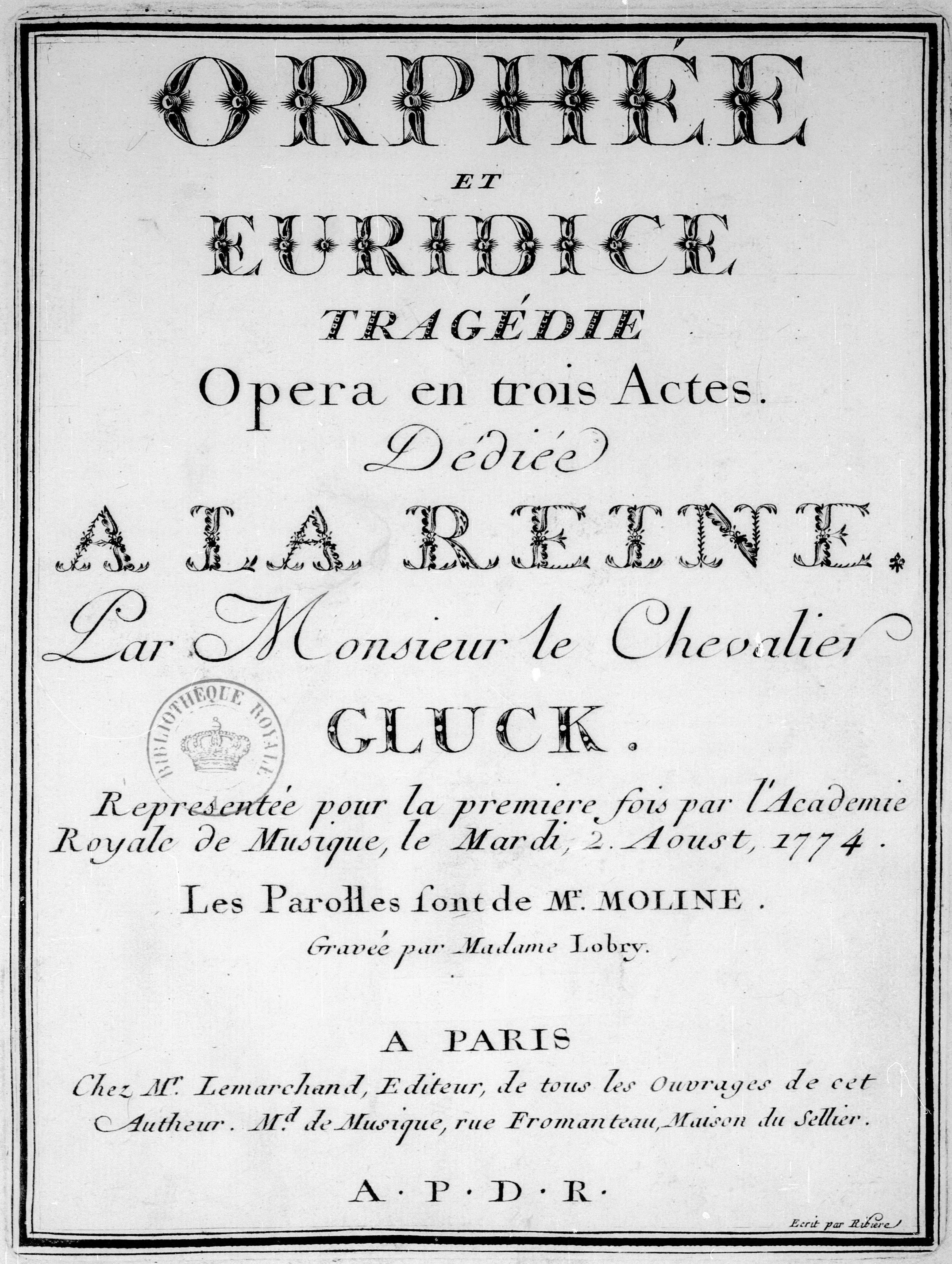 Title page of the 1774 full score of the French version of Gluck's opera Orphée et Euridice as published by Lemarchand in Paris